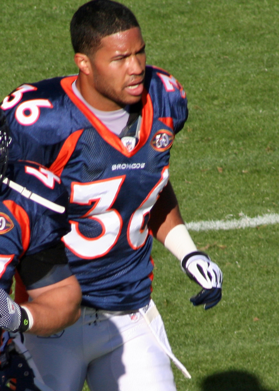 Josh Barrett, a player on the Denver Broncos American football team.